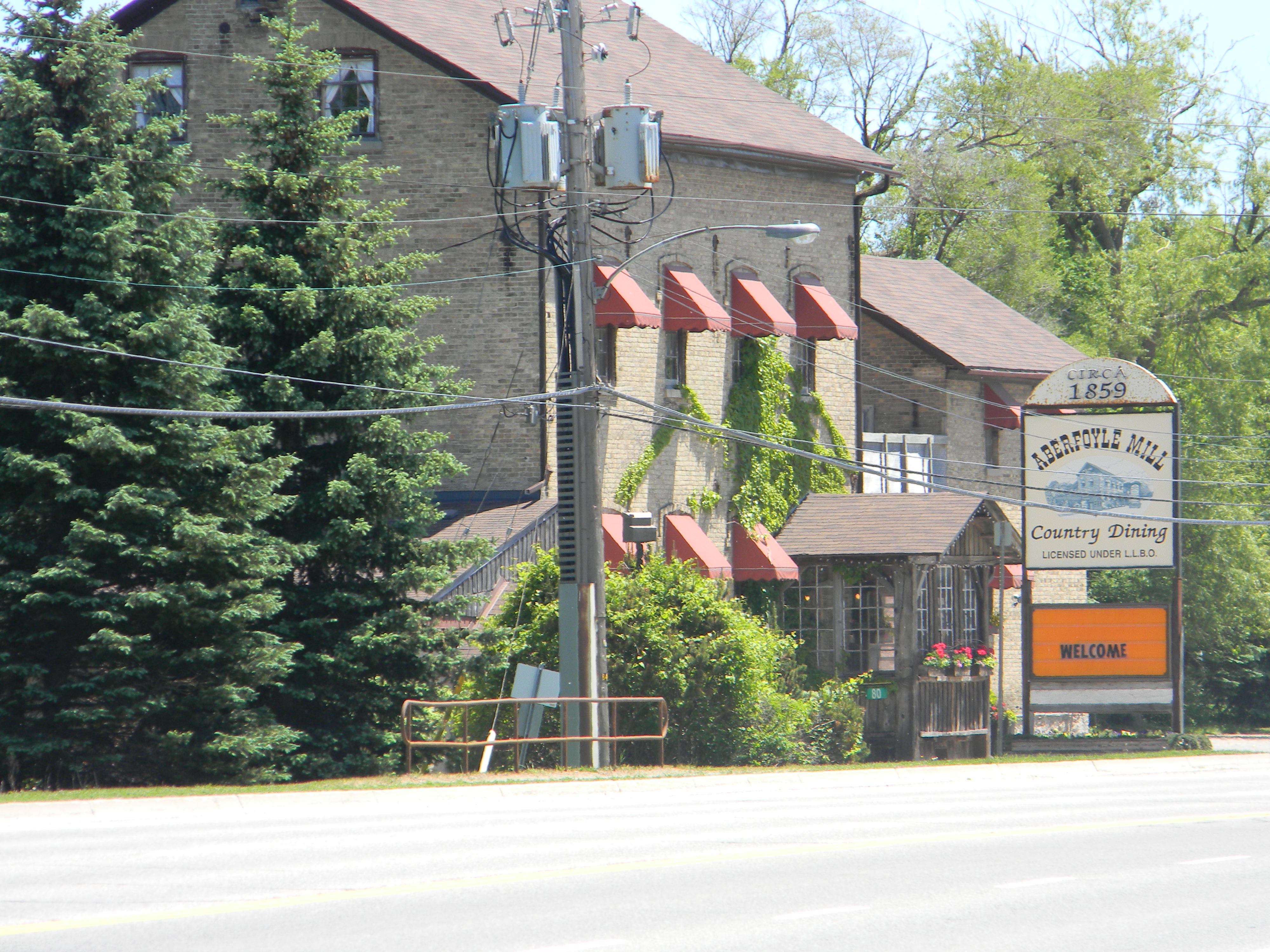 Aberfoyle is the administrative center for Puslinch Township in Ontario, Canada. Aberfoyle Mill-Restaurant